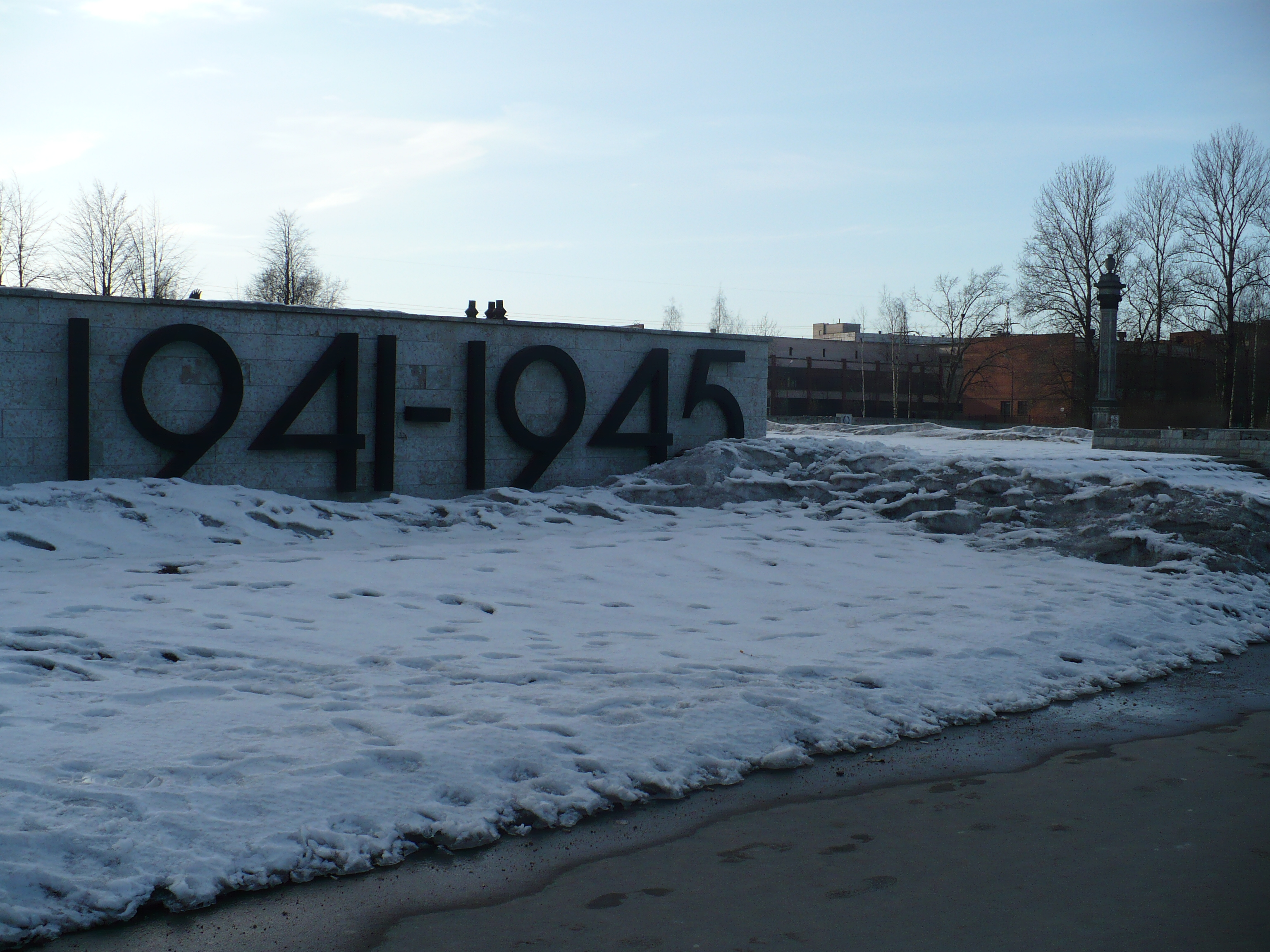 View of Nevsky memorial, SPb, Russia